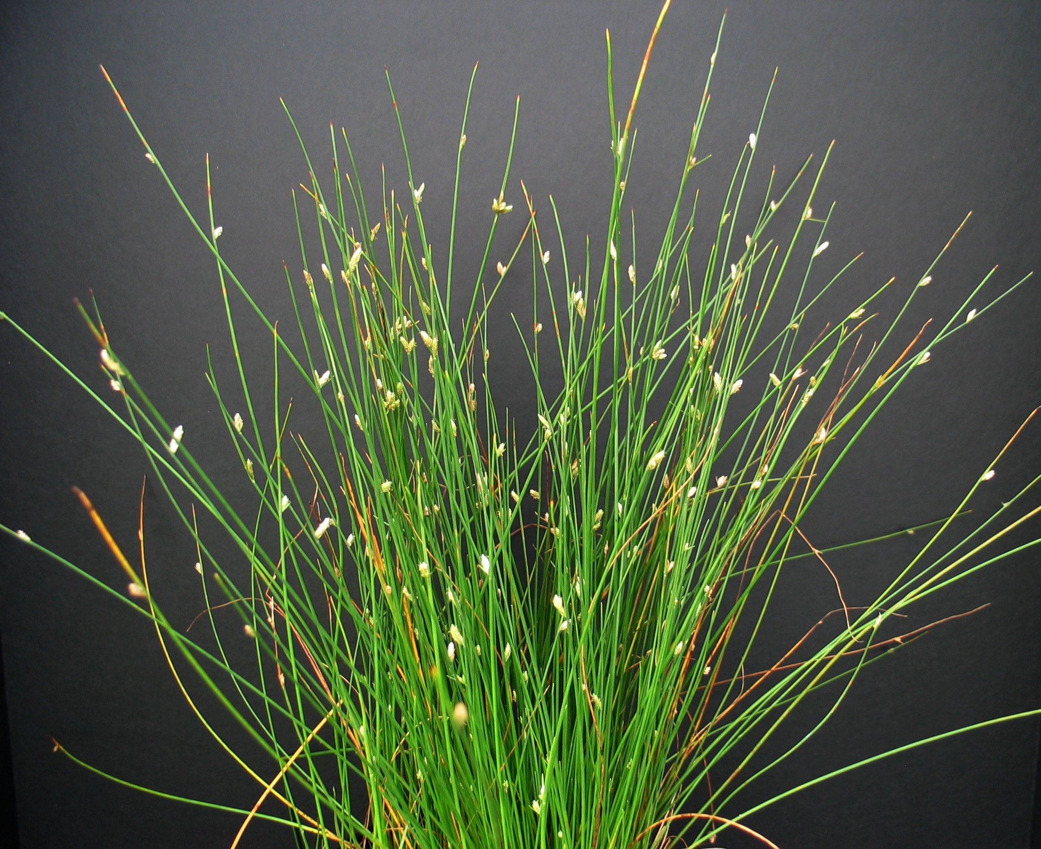 Makaloa or Smooth flatsedge Cyperaceae Indigenous to the Hawaiian Islands Oʻahu (Cultivated) Makaloa is found elsewhere in Polynesia, but only early Hawaiians used them to plait mats. (read more about these beautiful mats at the link below) Medicinally, the stalks were crushed to a fine powder and used to treat deep cuts, boils, skin ulcers and other skin disorders or taken as a snuff for head colds. Flower and stalk ashes mixed with kukui nut juice was rubbed on tongue for general debility. NPH00003